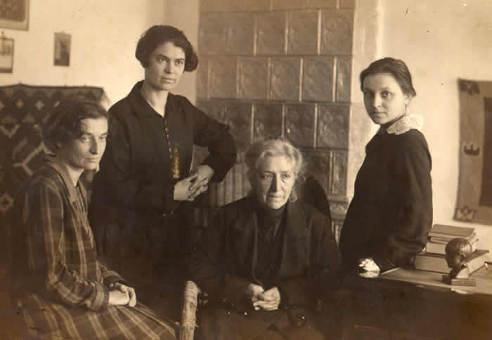 Family of Nikolai Gredeskul, a member of the first Russian State Duma's, second vice-chairman of the Duma. Wife and three daughters: Vera (rignt), Lyudmila (in the center)